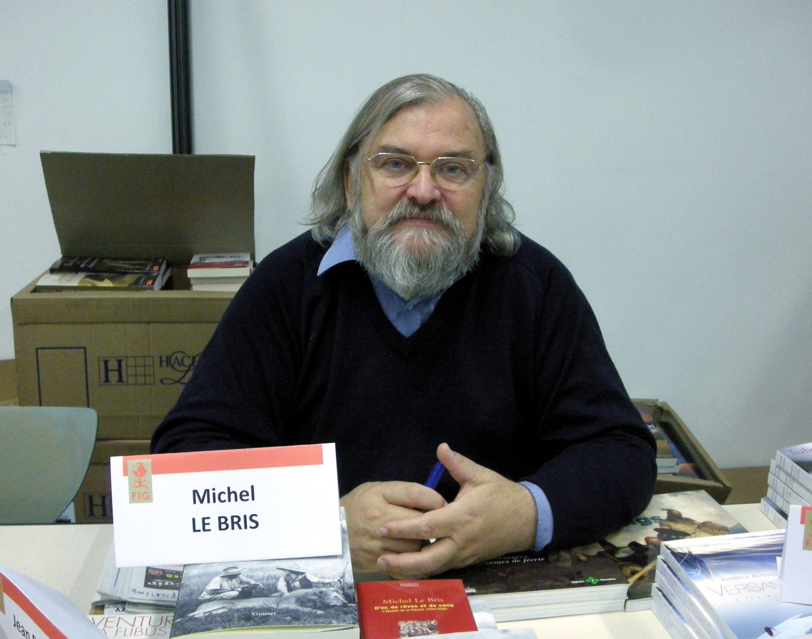 French writer Michel Le Bris at the 19th International Festival of Geography held in Saint-Dié-des-Vosges in October 2008